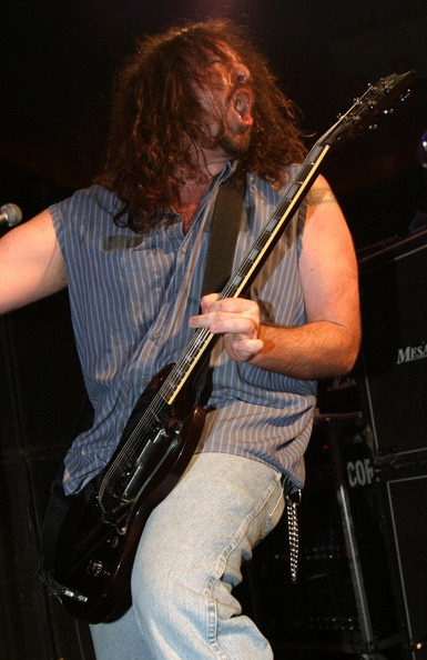 Woody Weatherman of Corrosion of Conformity Live at Reds, Edmonton